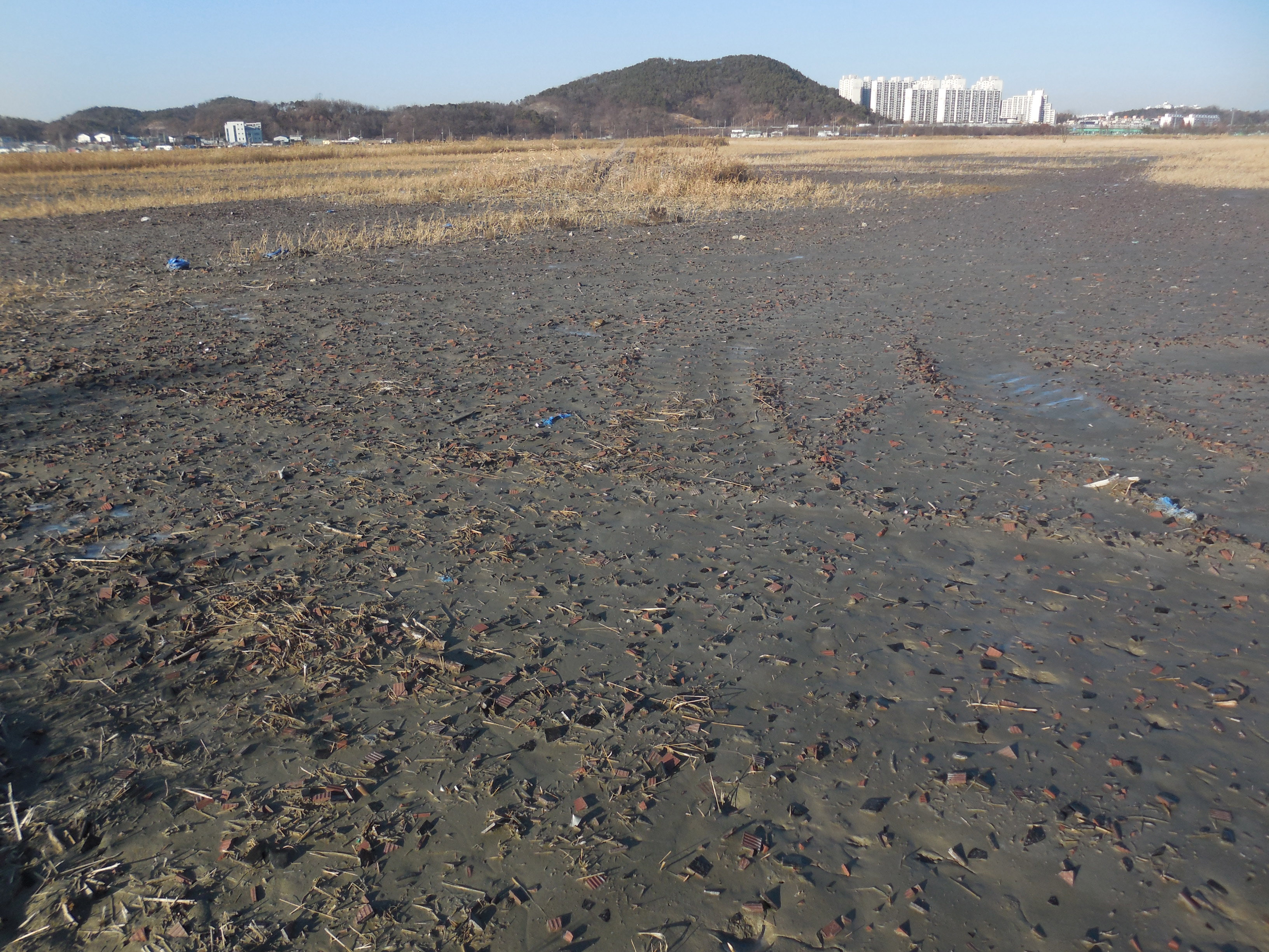 defunct crystallizing pond of Sorae Salt Field.